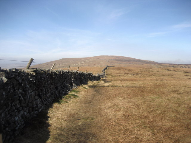 On Tor Mere Top